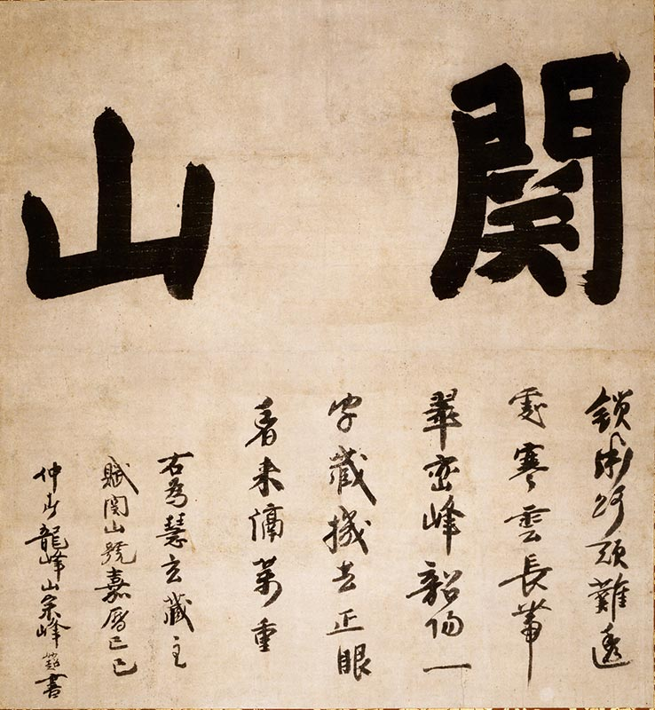 Kanzan (関山字号)